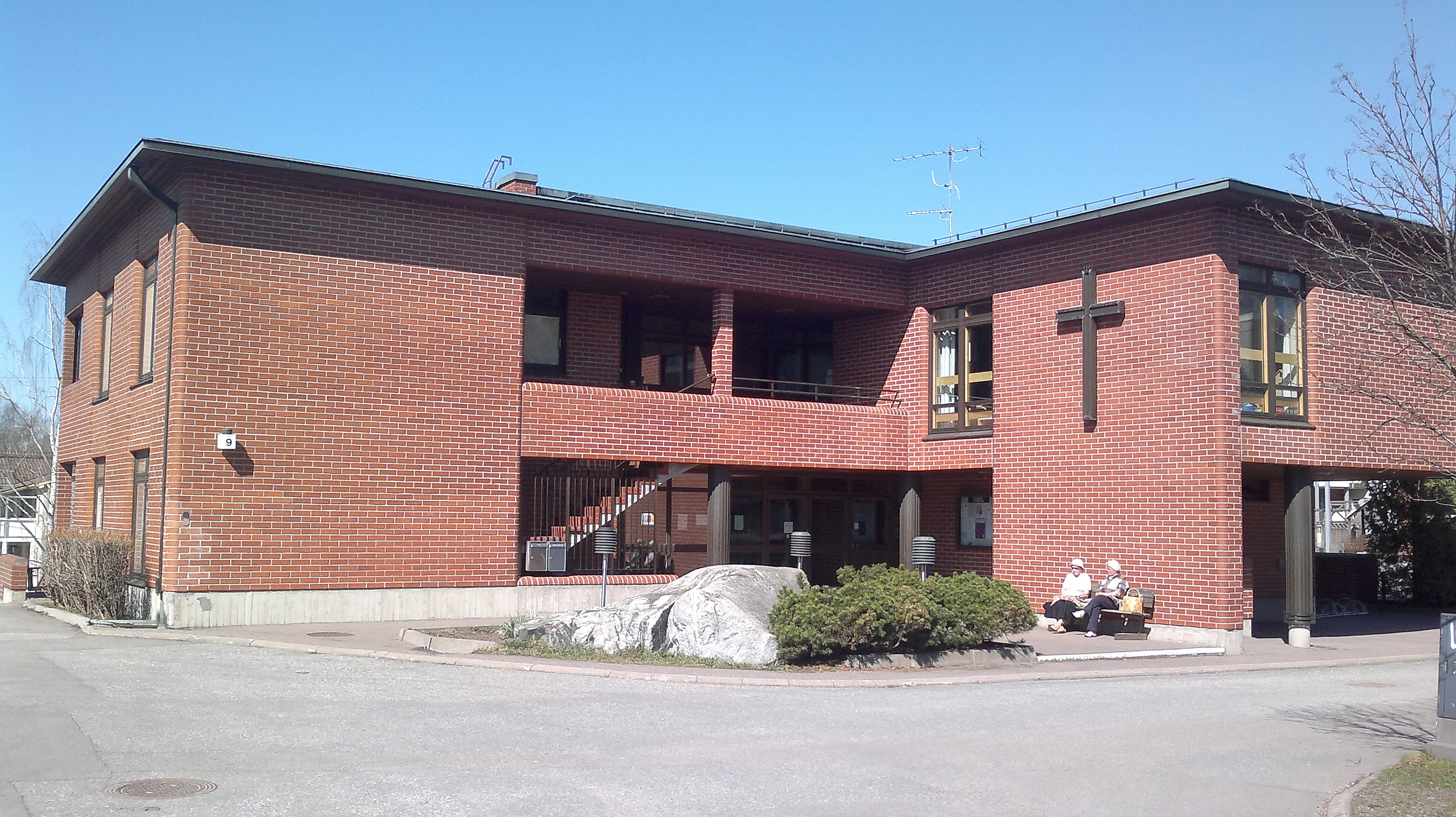 Länsimäki Church in Länsimäki, Vantaa, Finland